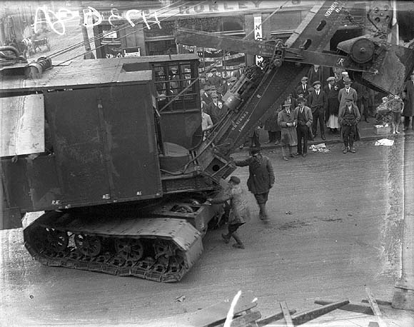 A Siemens-Bauunion Steam Shovel is eased through the streets of Limerick (from the Docks) on its way to work on the construction of the Shannon Hydro-Electric Scheme at Ardnacrusha. The rather unwieldy looking beast is here pictured outside Hurley's Tobacconists at 8 Sarsfield Street with a crowd of interested bystanders, whose clothes range from smart business attire to the boy who is barefoot at top right... Date: 1928 NLI Ref.: INDH736